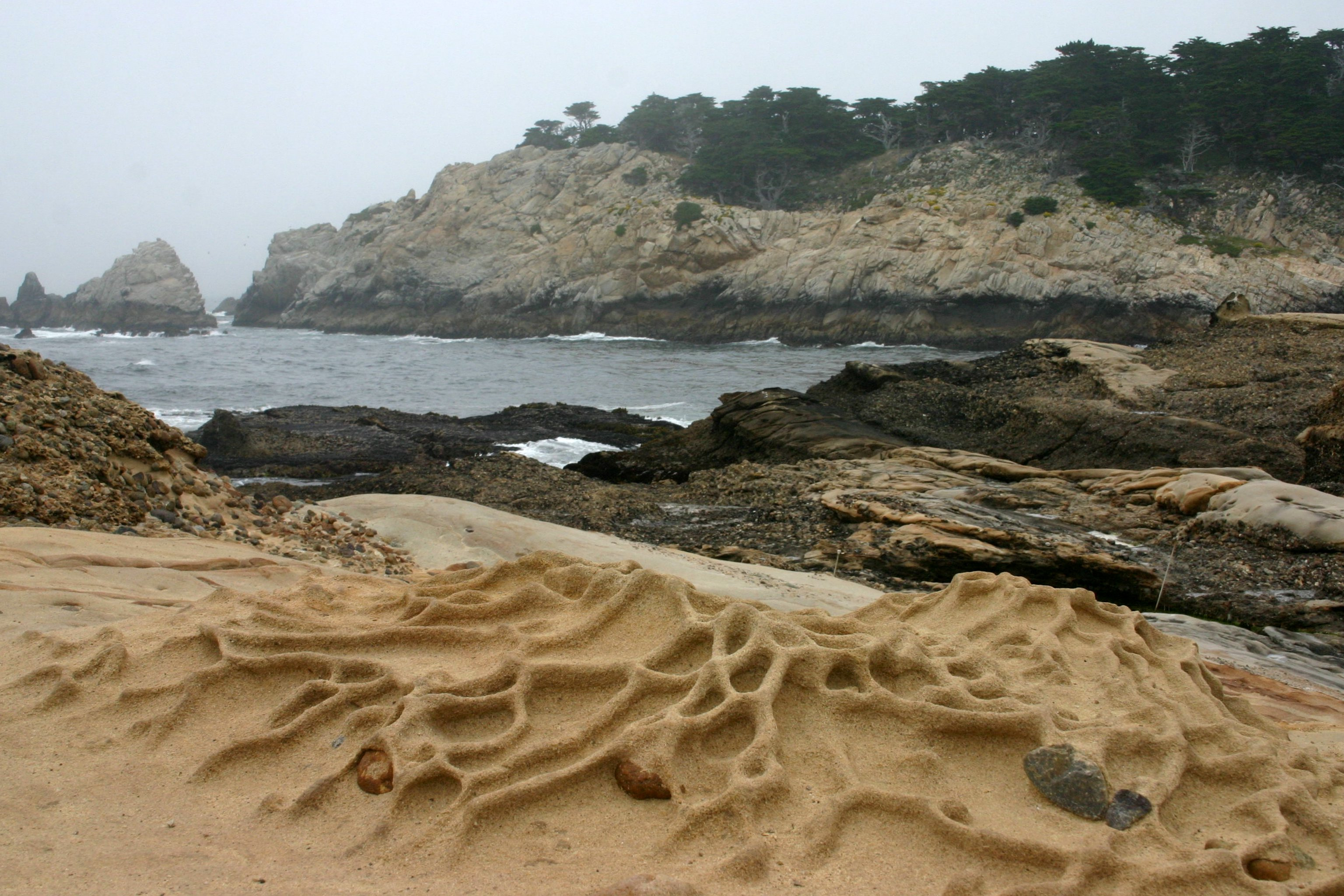 Tafoni, Pt. Lobos labyrinth, California